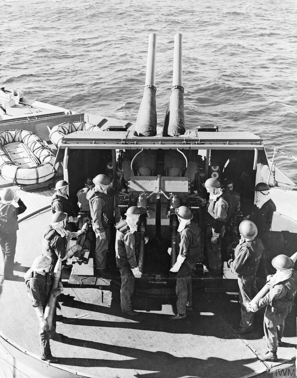 Photograph of 4-inch Mk XVI anti-aircraft guns and crew on Canadian auxiliary anti-aircraft ship HMCS Prince Robert, during convoy escort in the Atlantic.